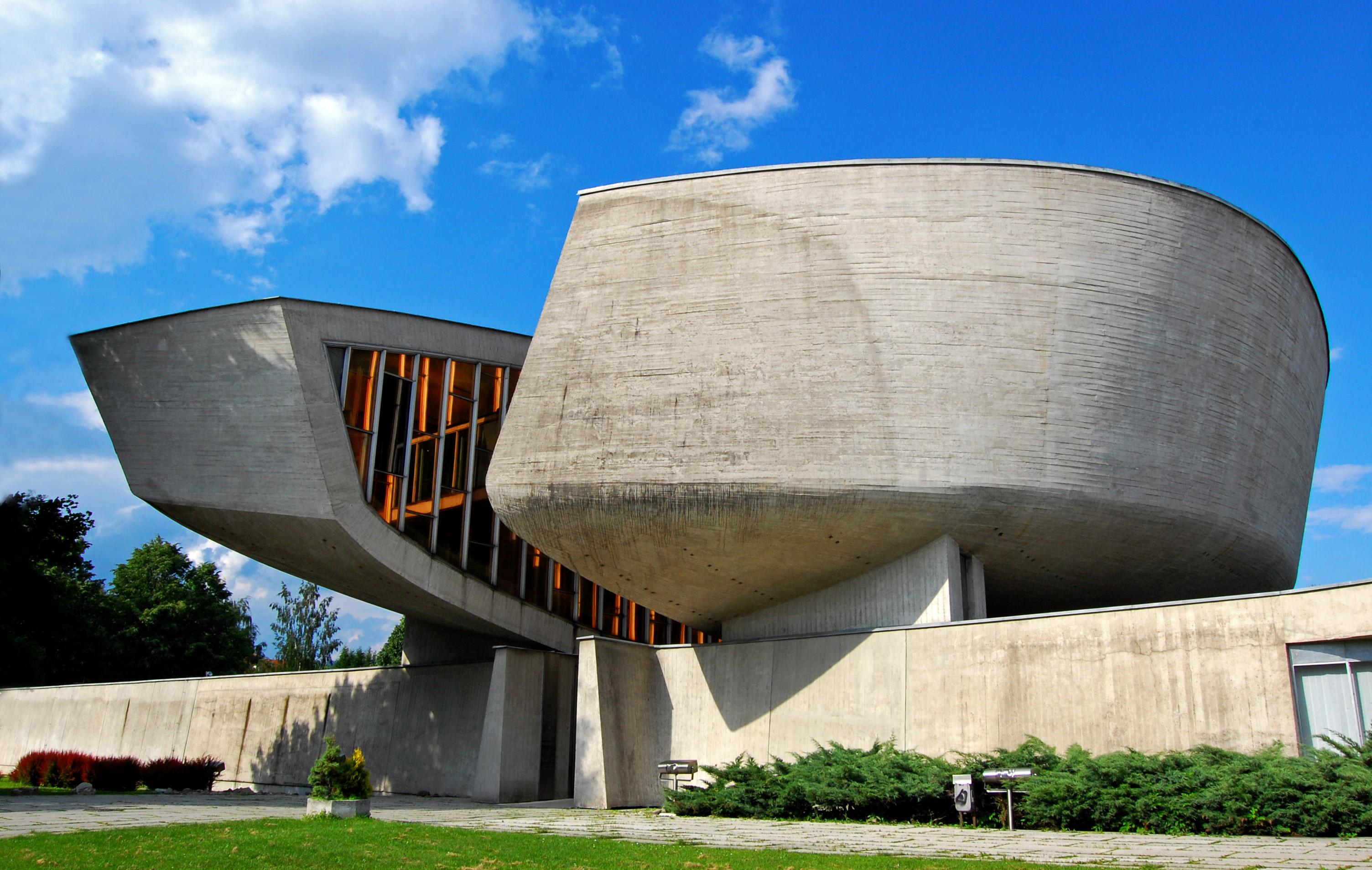 View of Museum of the Slovak National Uprising in Banská Bystrica